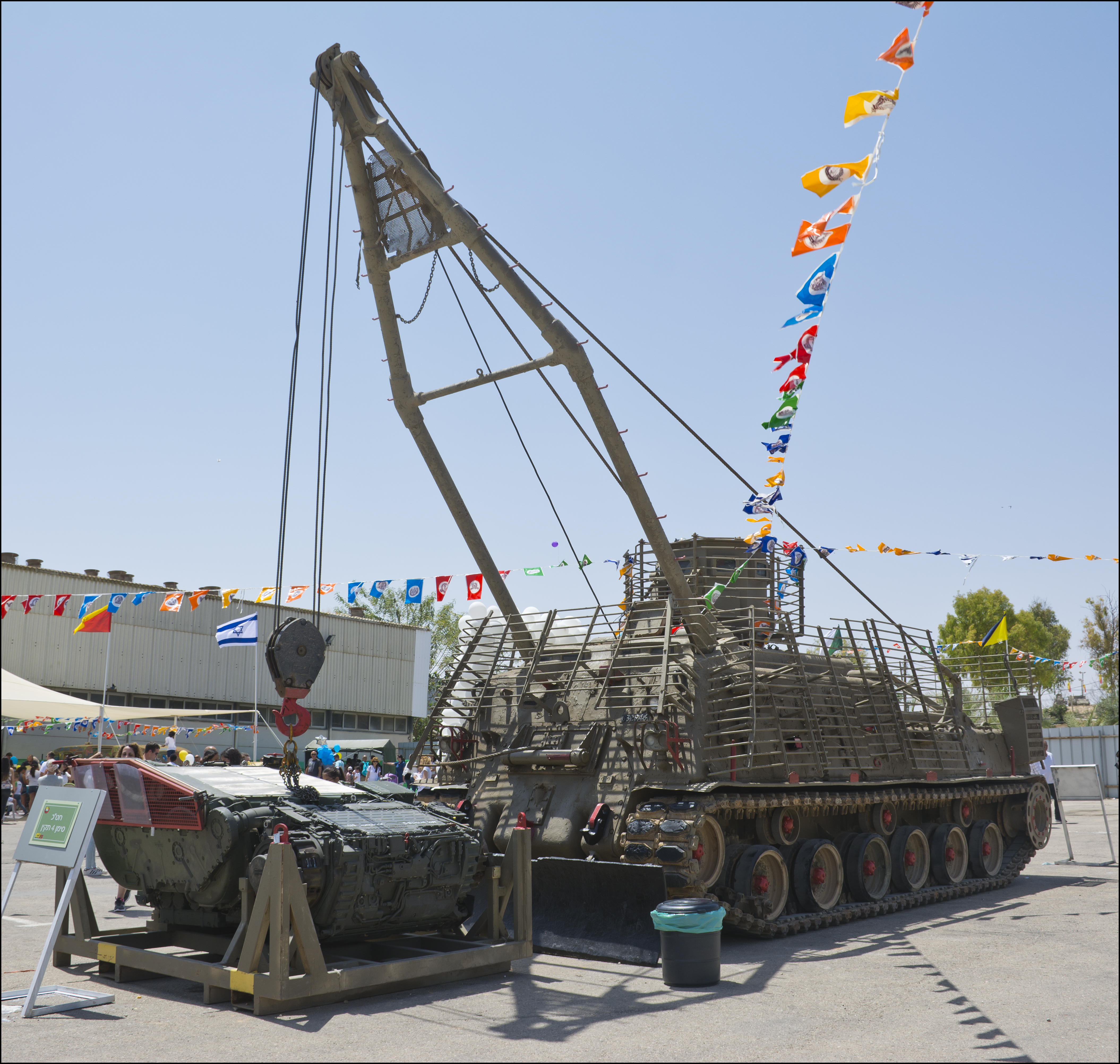 M-88 ARV (Armored Recovery Vehicle), Israel's 70th Independence Day